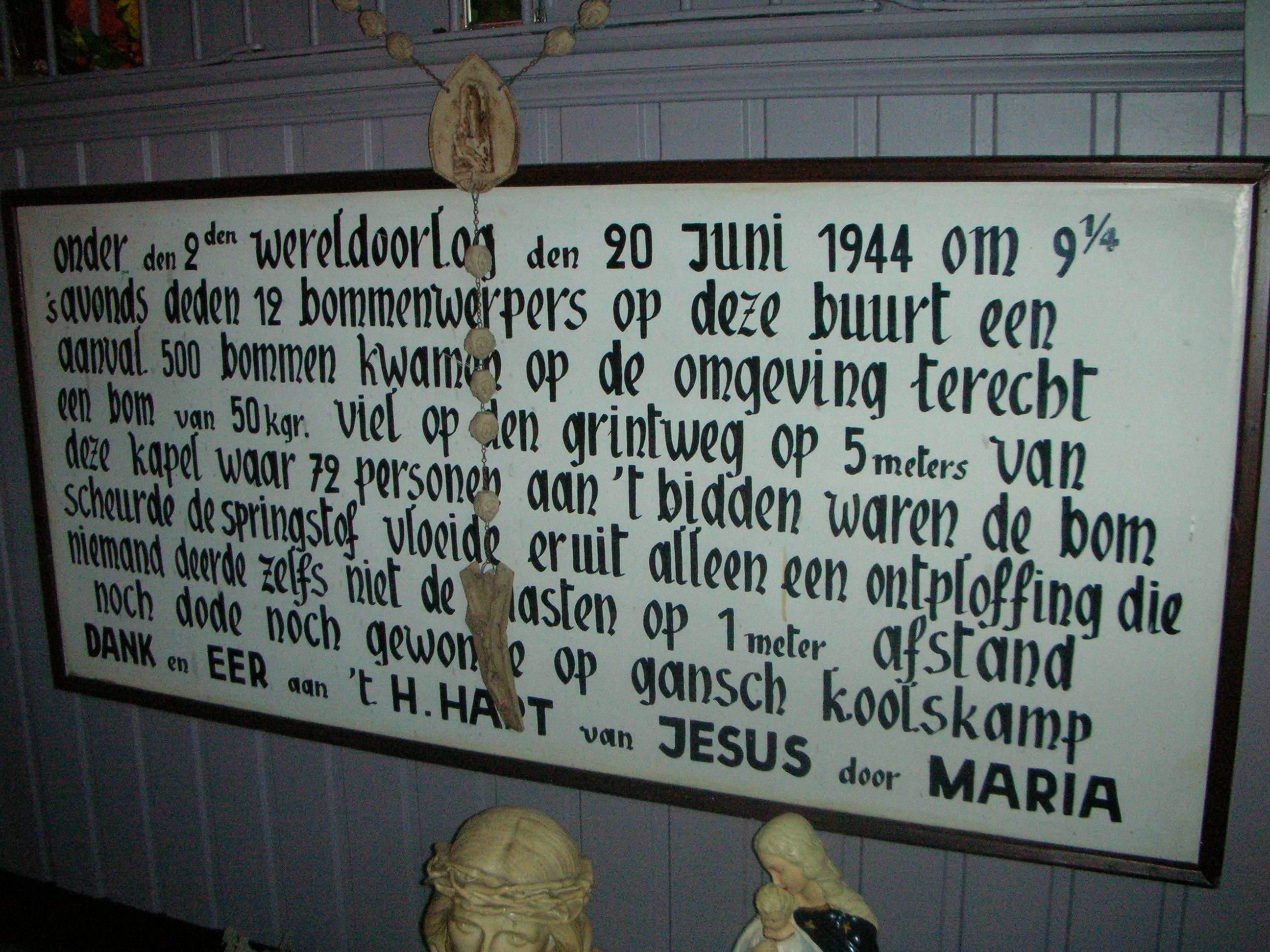 Commemorative plaque in the Bomkapelle chapel in Koolskamp. Koolskamp, Ardooie, West Flanders, Belgium